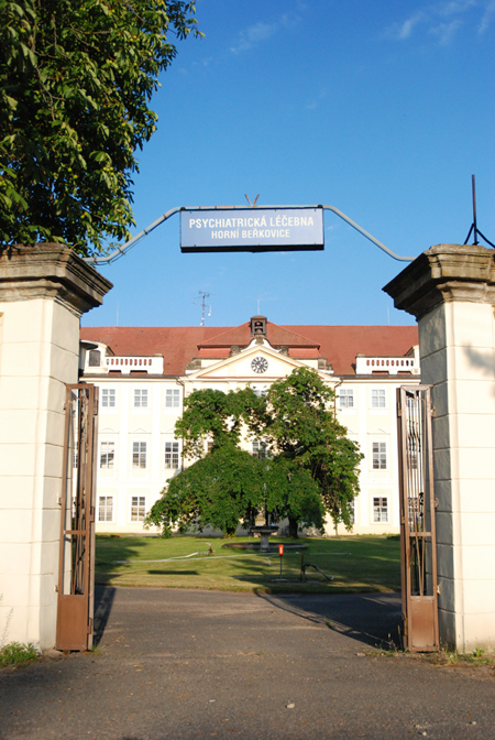 PLHoB